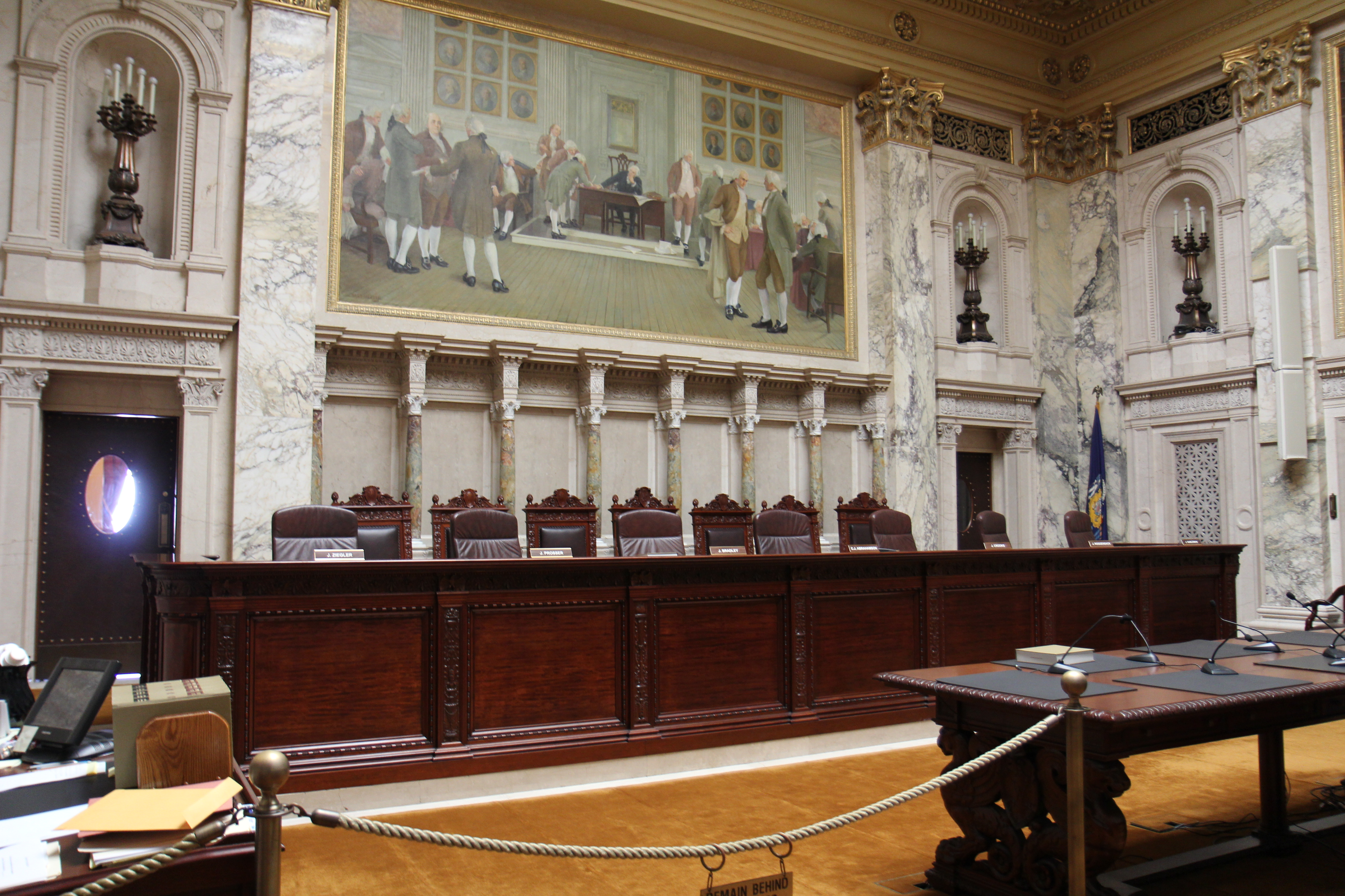 The Wisconsin Supreme Court room at the Capitol building. The painting was done prior the building's completion in 1917.